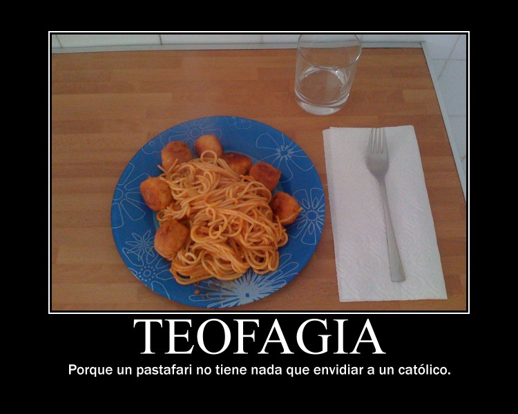 Plate of spaghetti and meatballs (with Bolognese sauce). Caption reads: Theophagy: Because a Pastafarian has nothing to envy a Catholic.